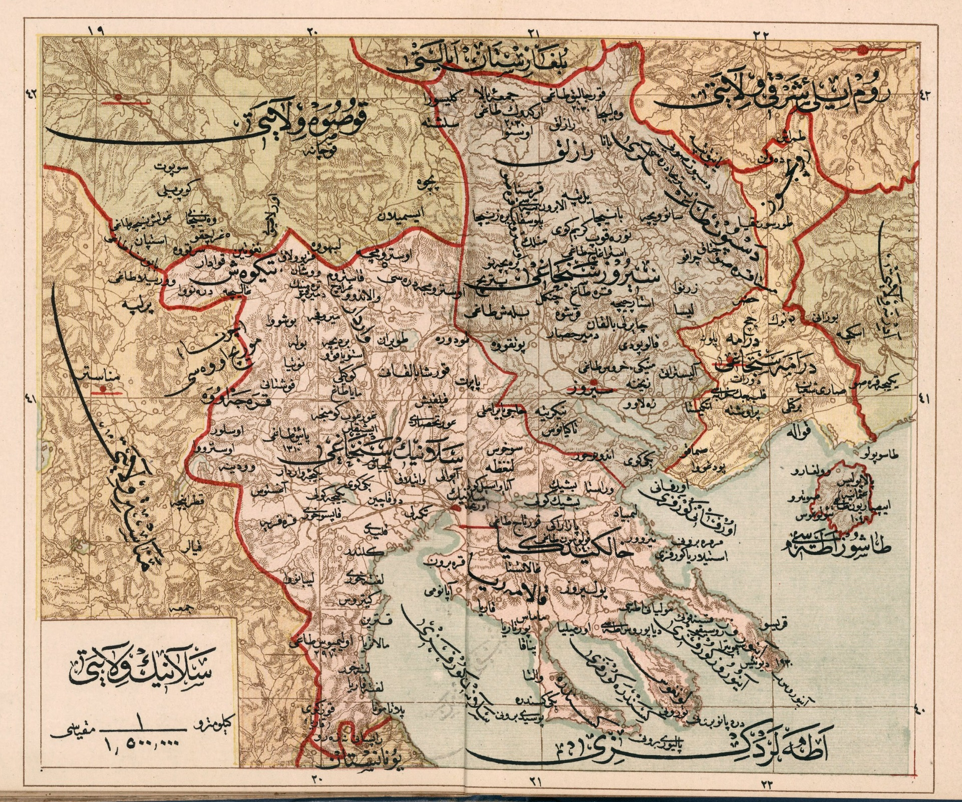 Salonica Vilayet — Memalik-i Mahruse-i Şahaneye Mahsus Mukemmel ve Mufassal Atlas (1907); it was divided in three sanjaks: Thessaloniki, Serres, and Drama.